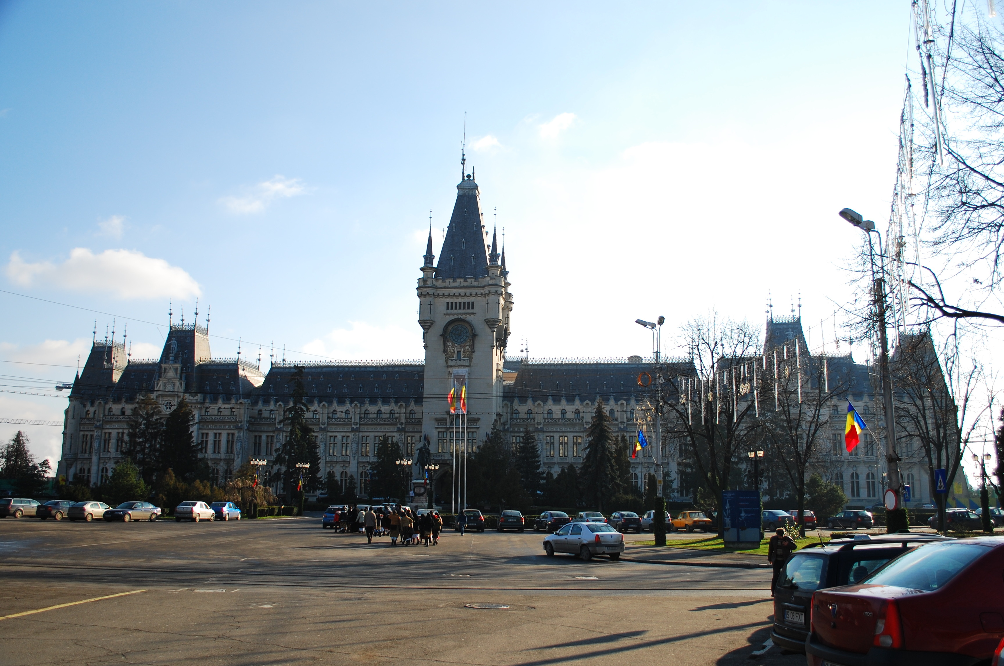 The Palace of Culture in Iaşi, Romania